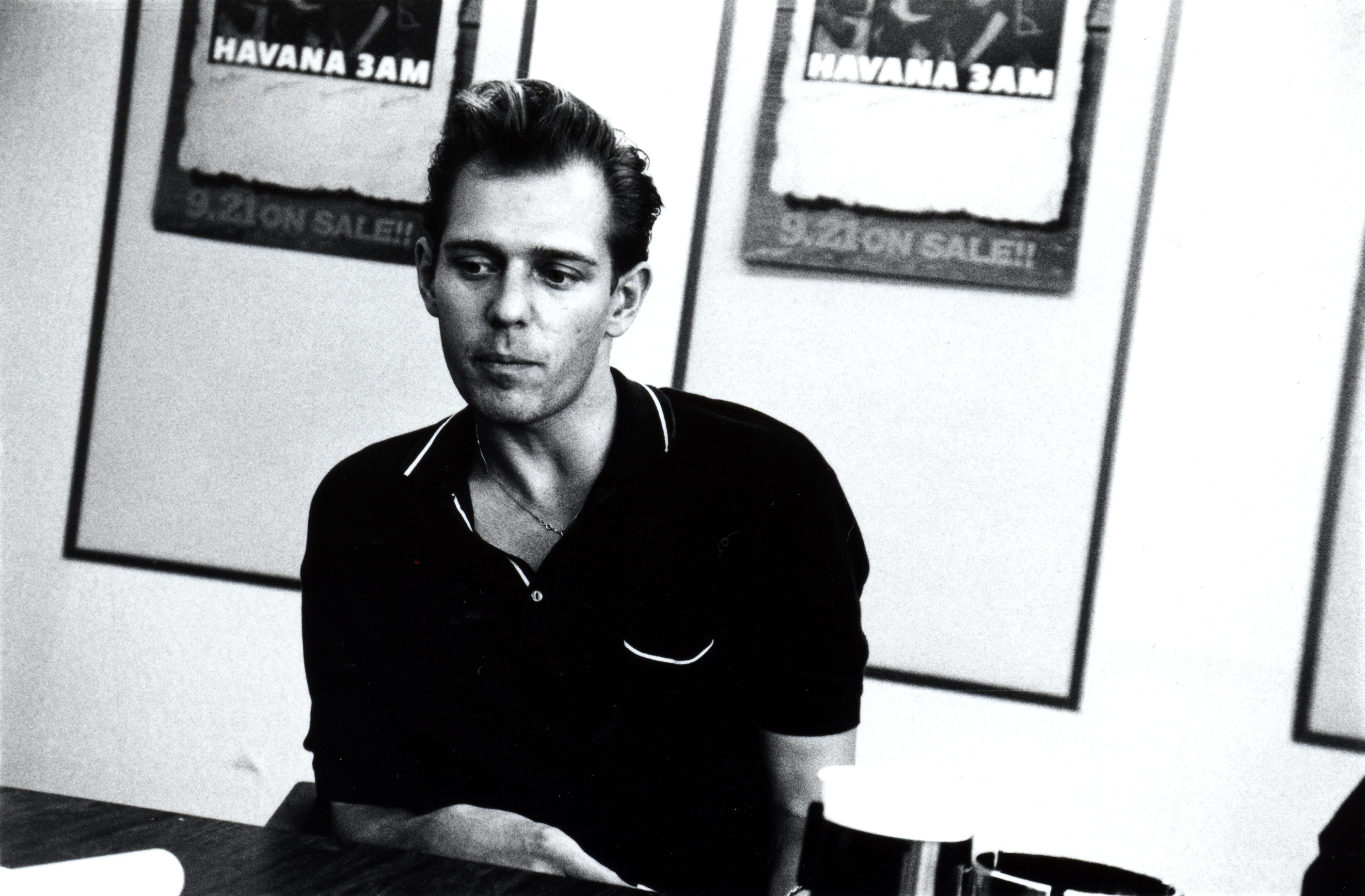 Paul Simonon of Havana 3AM (ex. the Clash) 1991, in Japan